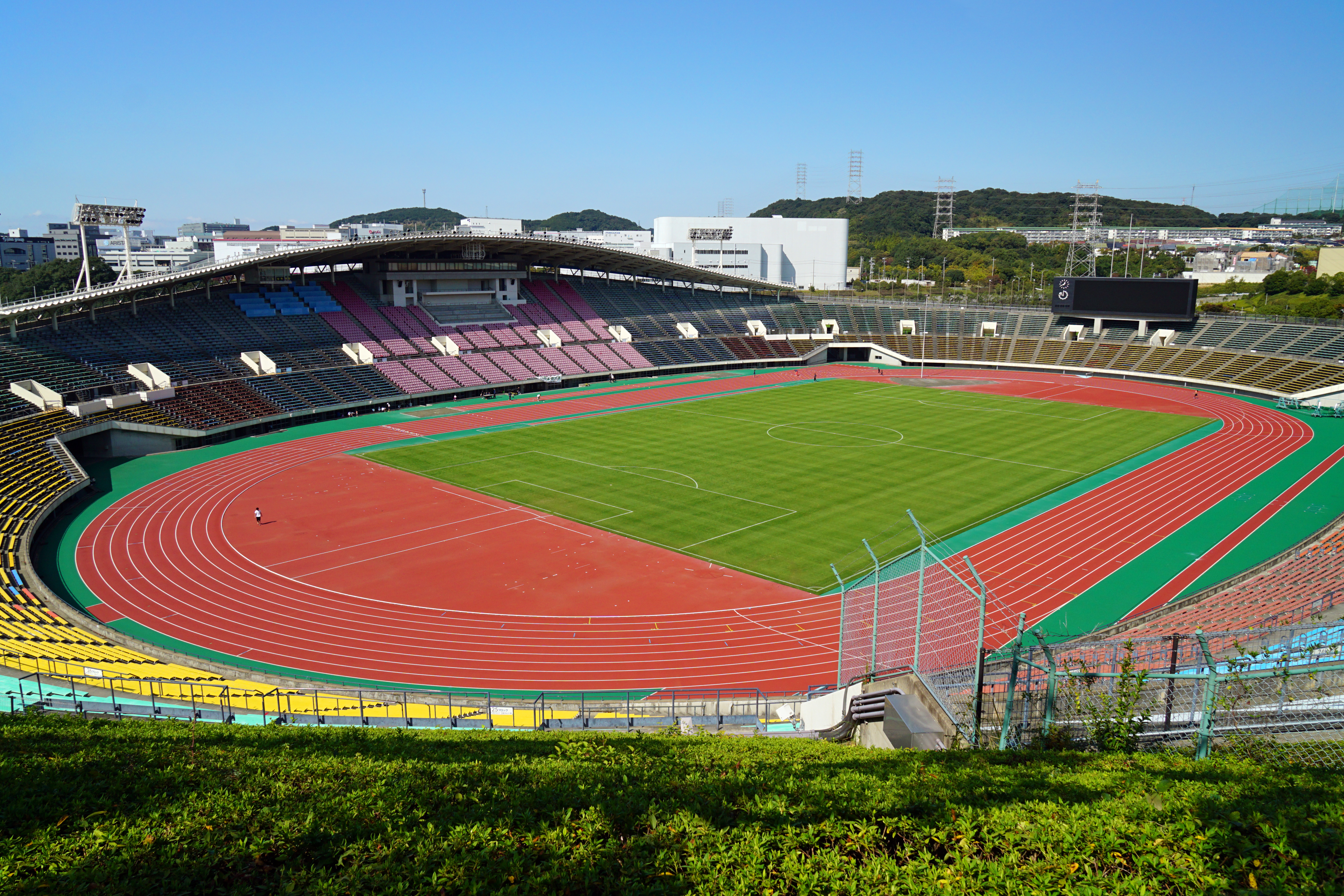 Kobe Universiade Memorial Stadium in Kobe, Hyogo prefecture, Japan